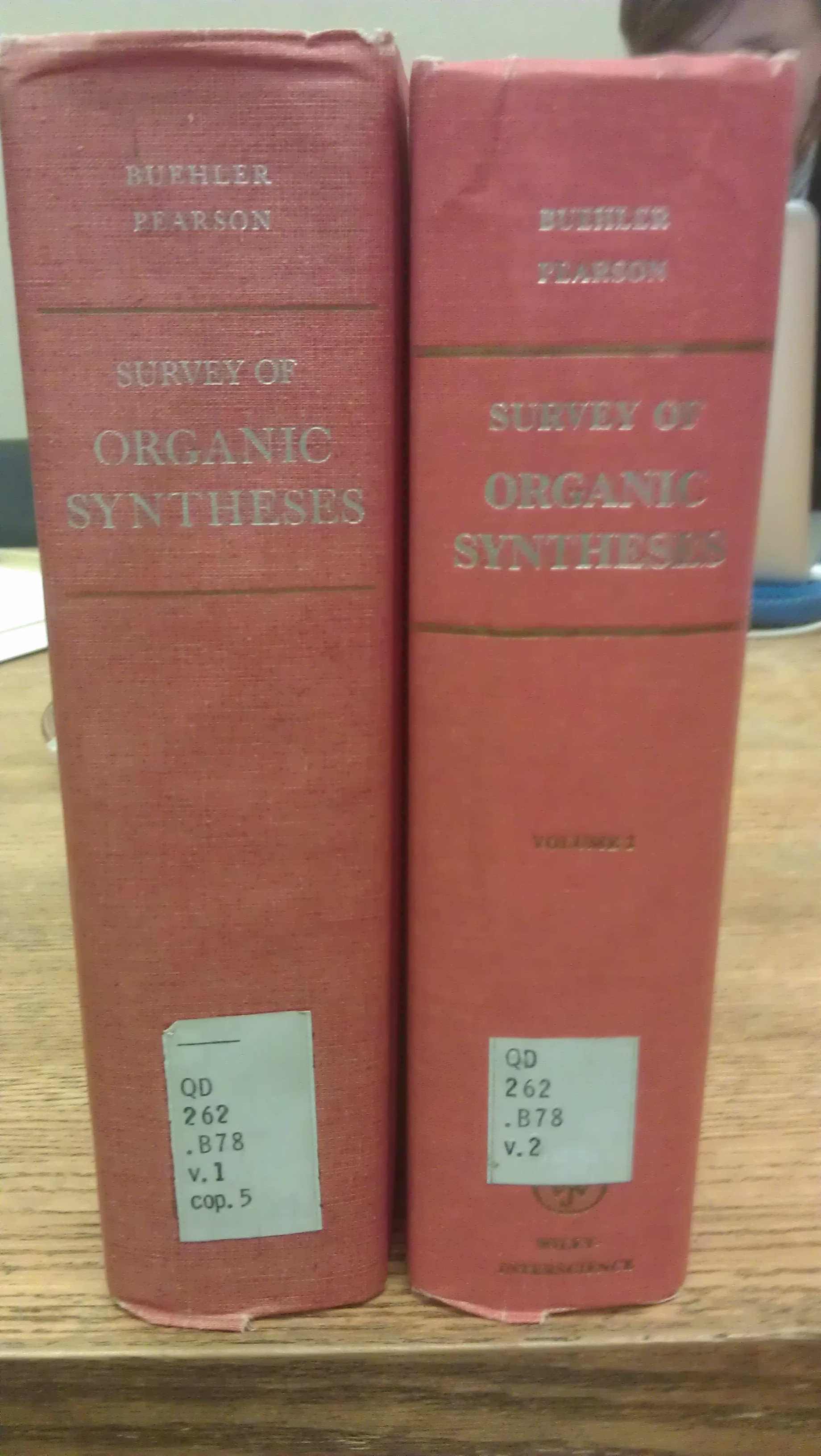 Books written by Calvin A. Buehler